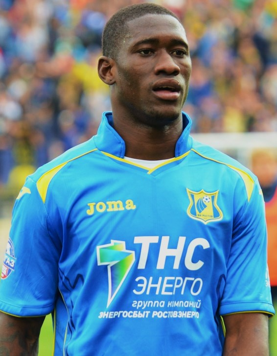 Bartolomeu Jacinto Quissanga